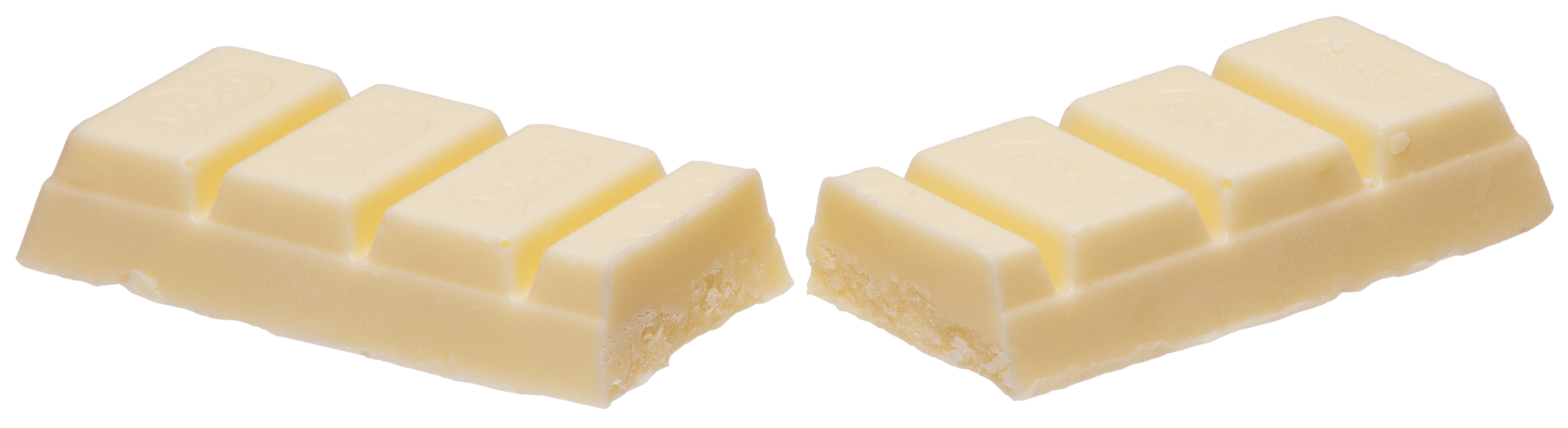 An Australian Milky Bar that has been split in half.